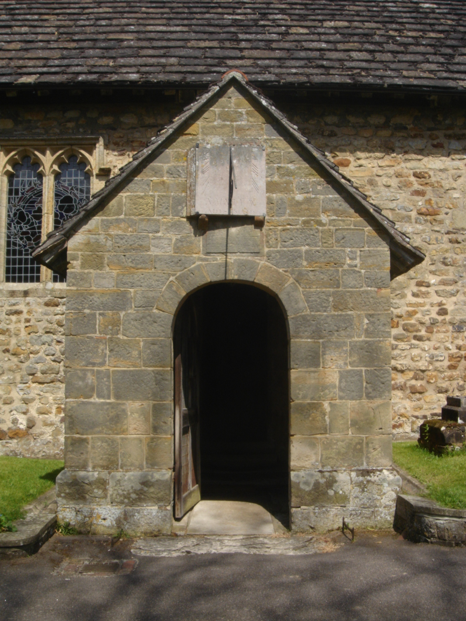 St Mary Magdalene's Church, The Street, Bolney, District of Mid Sussex, West Sussex, England. The parish church of Bolney; listed at Grade I by English Heritage (IoE Code 302420). This view shows the porch, which was added to the Norman-era church in 1718.